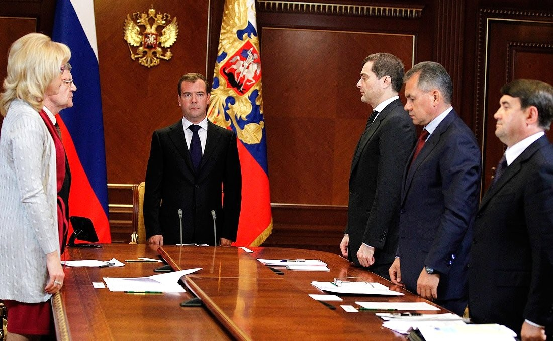 A moment of silence in memory of those killed in the crash of the ship Bulgaria in a meeting with Dmitry Medvedev, July 11, 2011